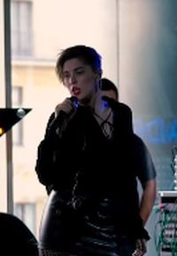 MARUV, a Ukrainian singer, composer, poet and producer.